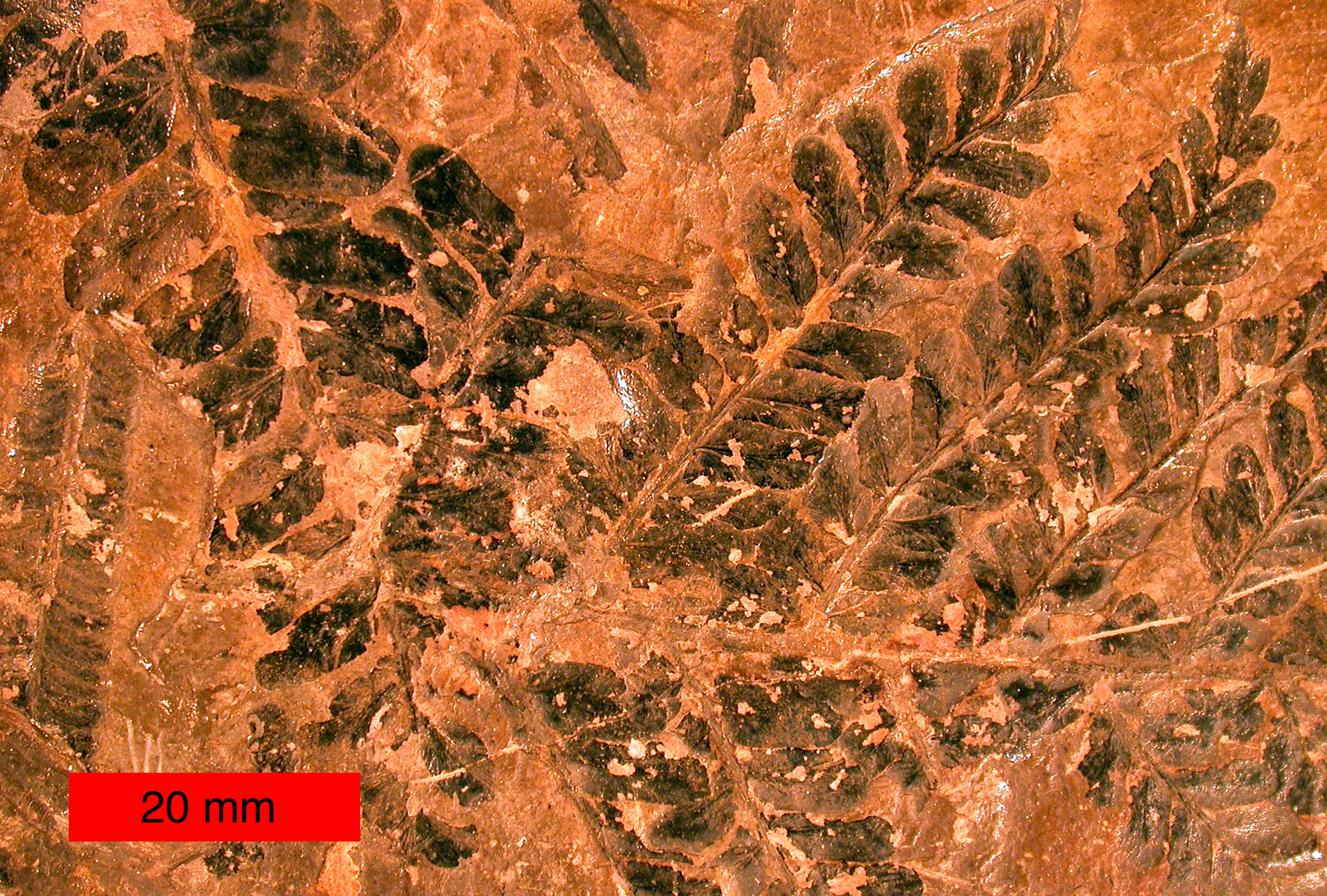 Fossil seed fern (Neuropteris ovata Hoffmann) from the Late Carboniferous of northeastern Ohio.